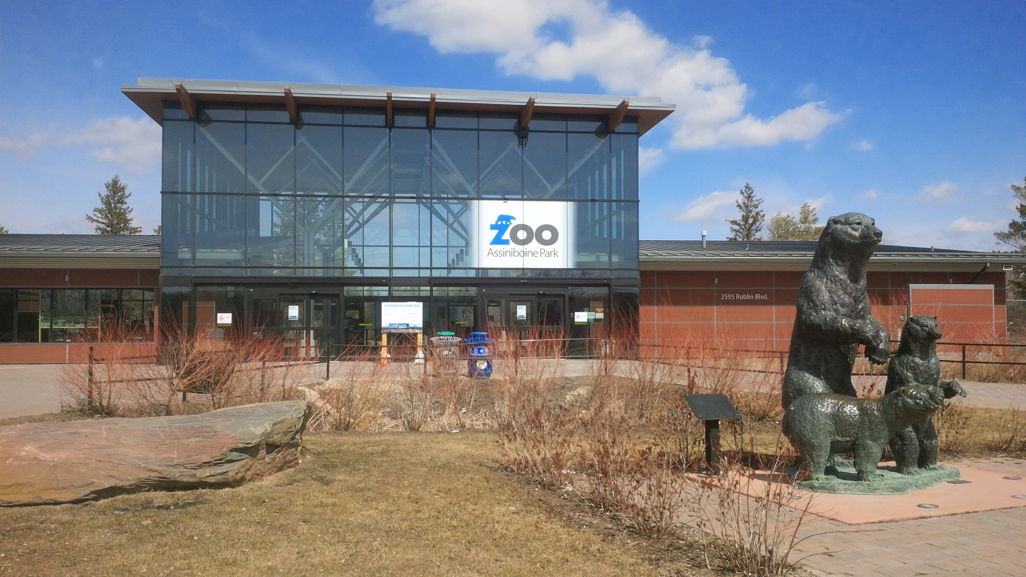 Entrance building to Assiniboine Park Zoo. This building was constructed in 2013-14 in time for the new Journey To Churchill (Polar Bear) Exhibit which opened in July 2014.